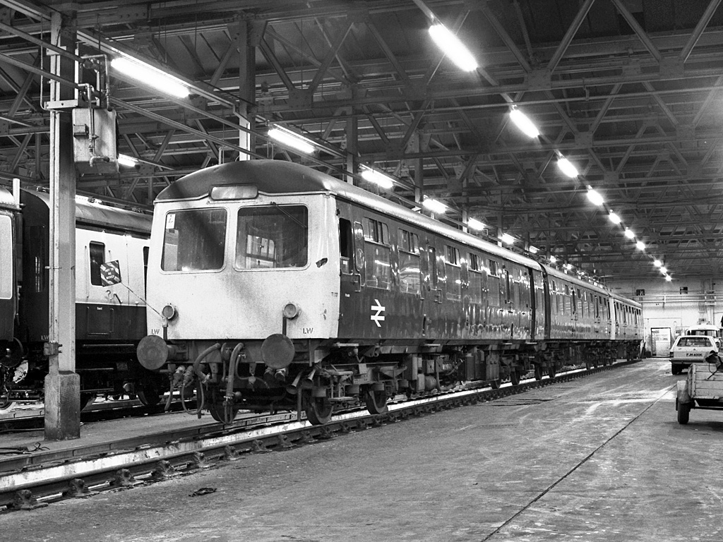 British Railways Cravens Limited class 105 two car diesel-mechanical multiple unit E51282 and E56461, and Cravens Limited class 105 driving trailer composite lavatory number E56471 stands inside the South shed at Longsight Diesel Traction Maintenance Depot, Manchester whilst en route from Norwich to Sheffield Nunnery. Thursday 8th December 1983